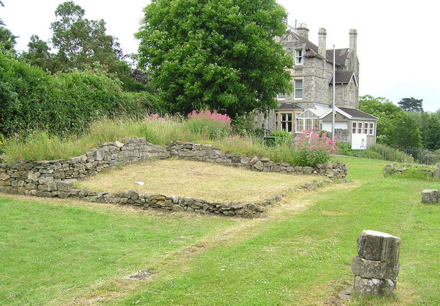 Keynsham Abbey (Remains)